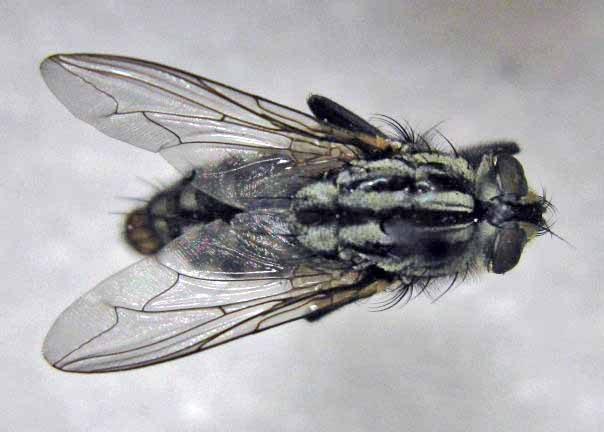 Dorsal View Sarcophaga Haemorrhoidalis